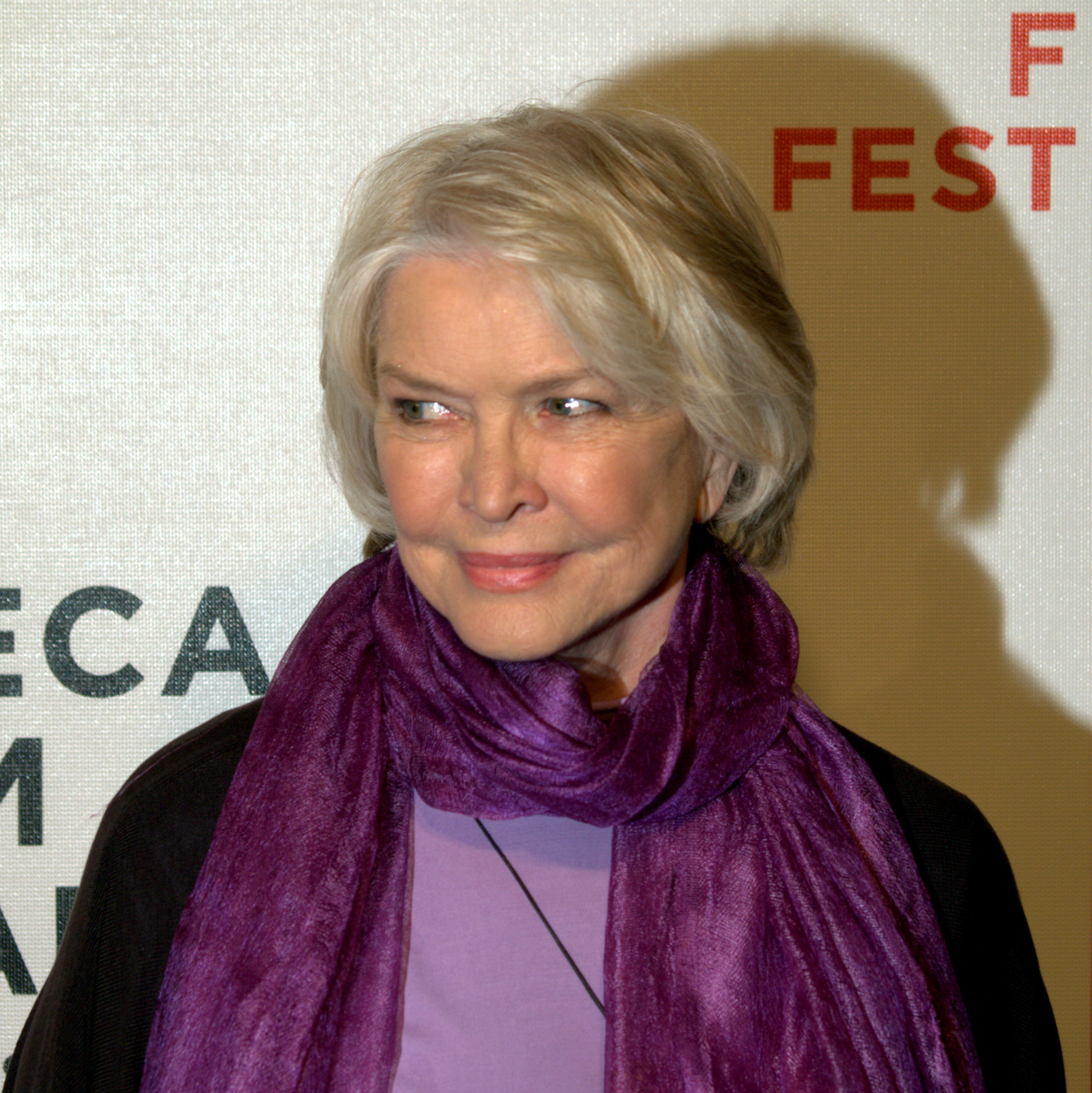 Ellen Burstyn at the 2009 Tribeca Film Festival premiere of Poliwood.